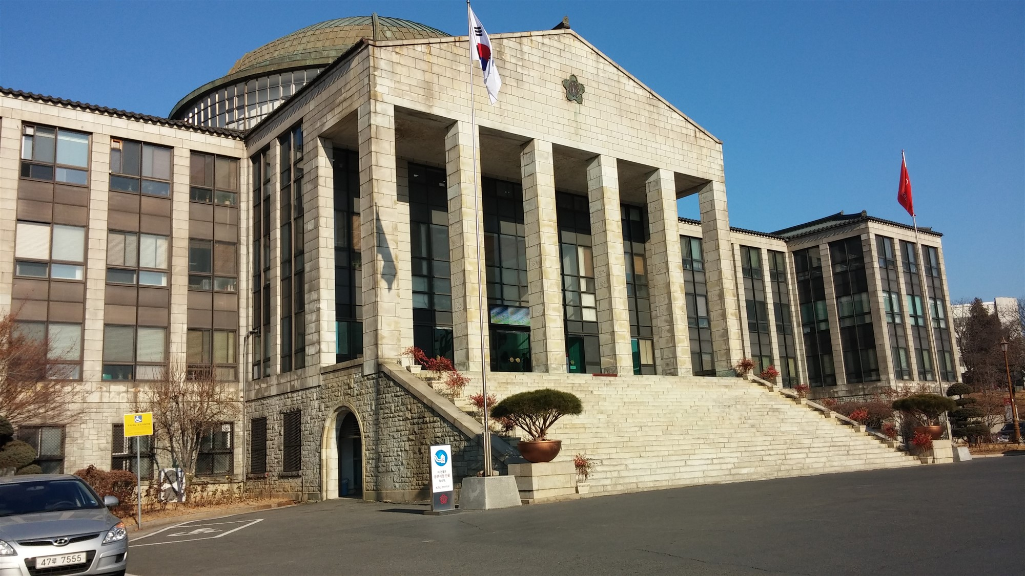 Admin building at Kyeongbok University in Daegu, South Korea